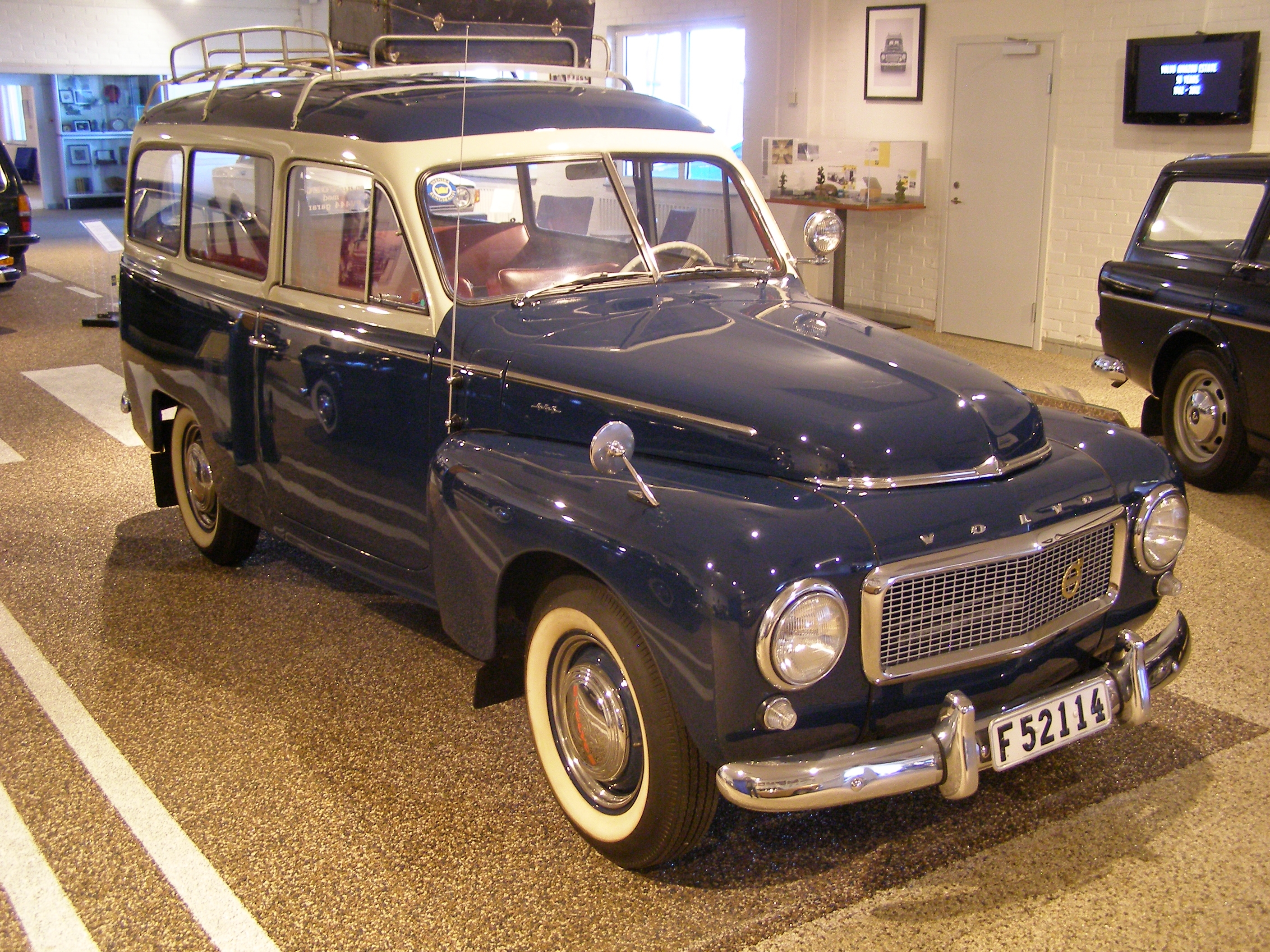 Gothenburg - Volvo Museum - Volvo PV445 Duett